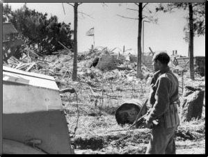 Haganah soldier in the village of Kastel on April 5, 1948. In April 1948, Haganah lead Operation Nachshon with the purpose of opening the Tel-Aviv Jerusalem road. The village of Kastel was occuying a strategic place on this road in the area of Jerusalem.